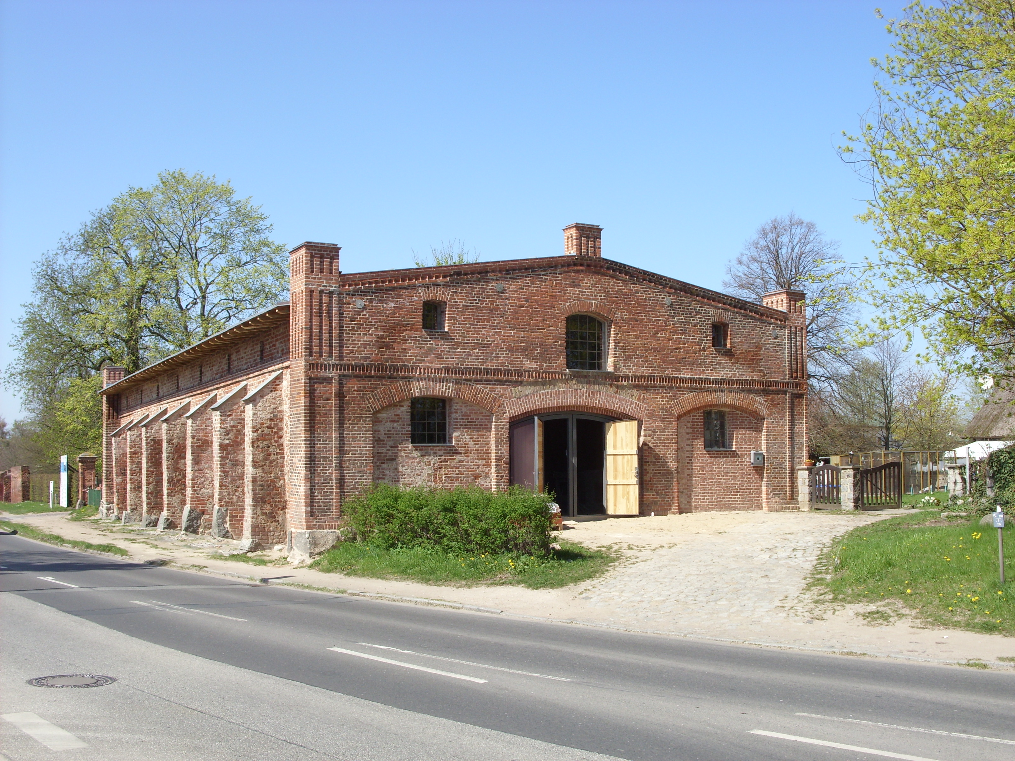 Barn at Eldena Abbey, Greifswald, Germany